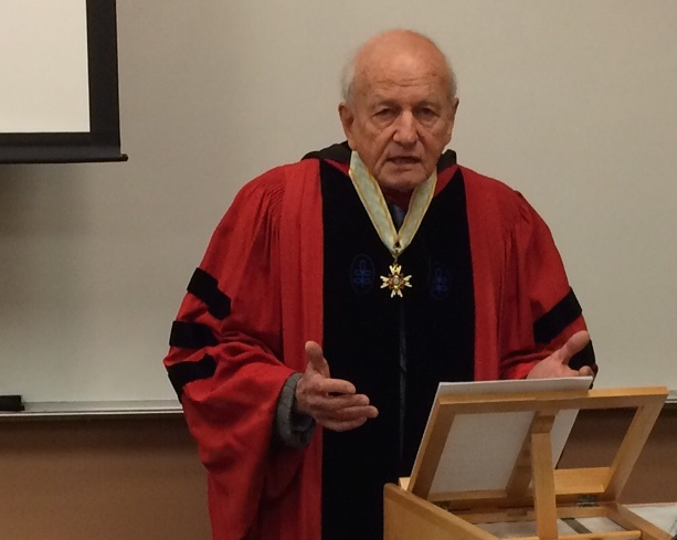 Photograph of John Curtis Perry, at The Fletcher School of Law and Diplomacy, in Medford, Massachusetts, on December 8, 2014, during his lecture of the Maritime History and Globalization course. In the picture, Perry is imparting his last lecture before his retirement from teaching. Referencing William Smith Clark, in his farewell to his students in Japan in 1877, John Perry concluded his lecture by proclaiming "I say to you, women and men of Fletcher, be ambitious!"